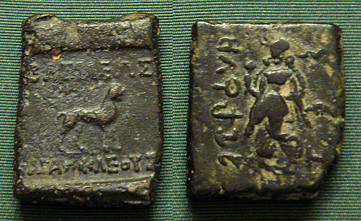 Coin of Agathokles, king of Bactria (ca. 200–145 BC). British Museum. Personal photograph 2006. The coin shows inscriptions in Greek. Upper left: ΒΑΣΙΛΕΩΣ. Upper down: ΑΓΑΘΟΚΛΕΟΥΣ. The coin also shows a Buddhist lion and Lakshmi.